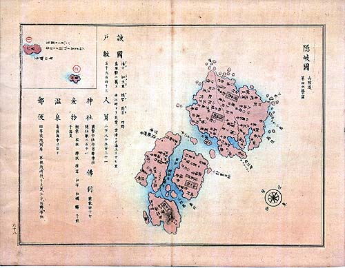 "Dai Nihon Kokugun Zenzu" Oki Islands (1875) Liancourt Rocks have been drawn, too.